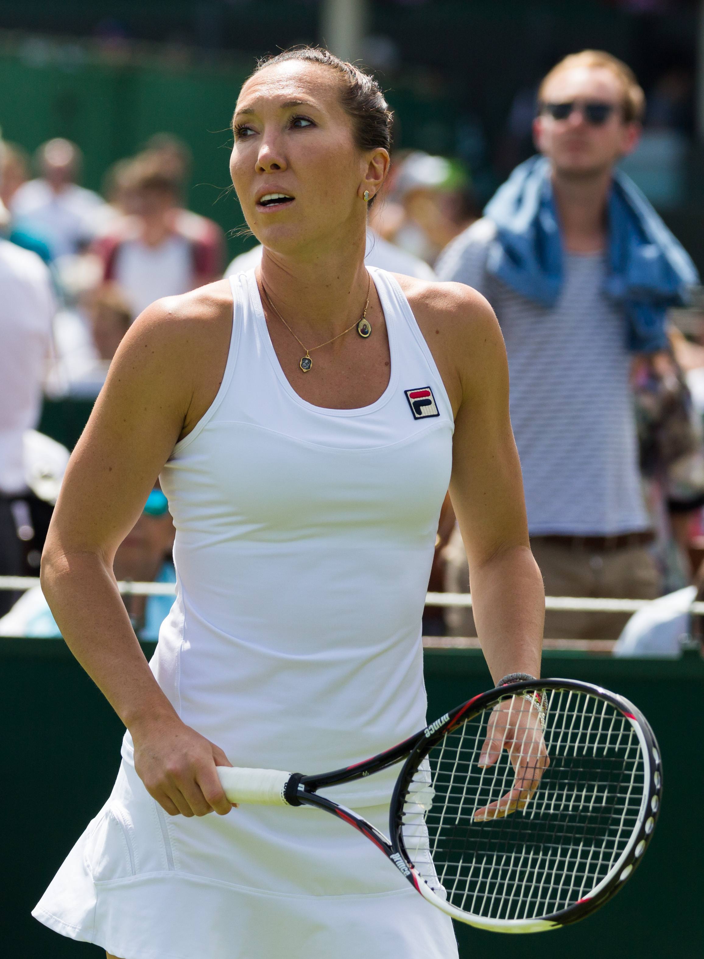 Jelena Janković competing in the first round of the 2015 Wimbledon Championships.